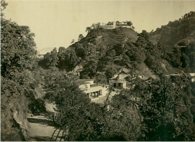 The Castle Landour and Castle Hill, Landour, Uttarakhand, as seen from Woodville, Mussoorie, India. Photograph (albumen print) by Samuel Bourne, 1865